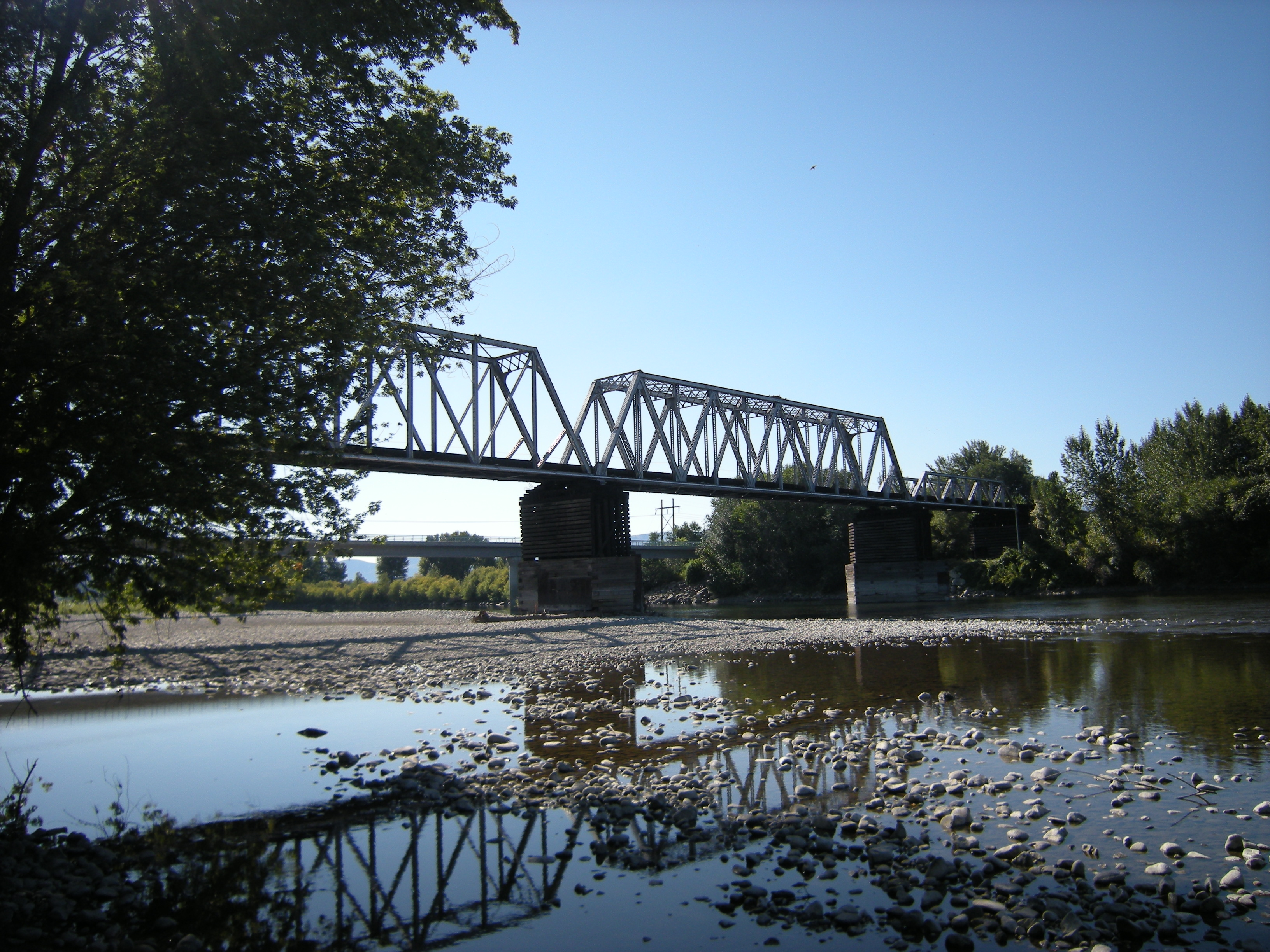 Railway bridge across the Wenatchee River, Wenatchee, Washington.